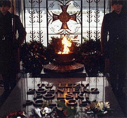 Film image, taken in January 1997. Posted on Flickr on Nov. 11, 2010. Released to public domain on Jan. 10, 2019.